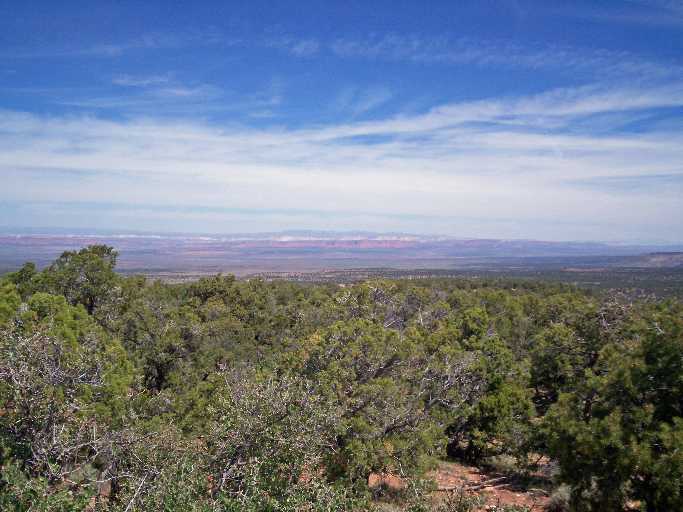 Kaibab Plateau June 2008. (View from Kaibab Plateau, the Vermilion Cliffs and White CLiffs visible, (around the Paria Plateau, east and northeast of the Kaibab Plateau.)